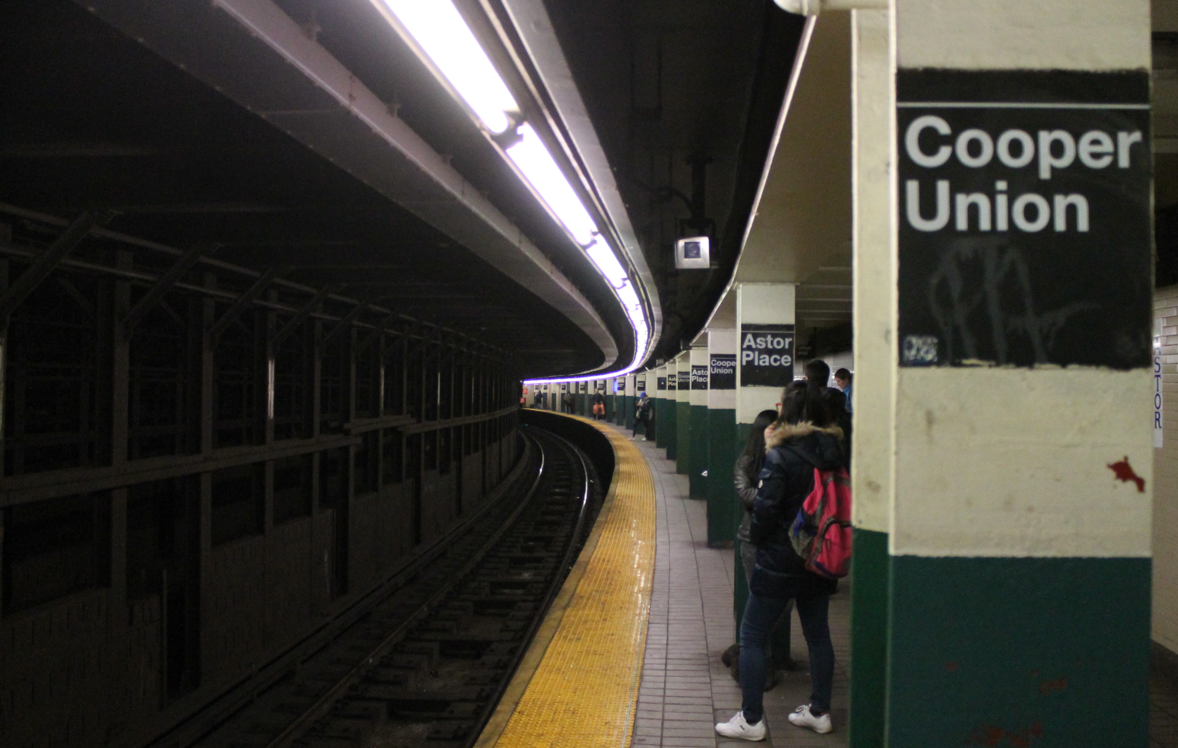 Waiting for Lexington Avenue 6 Northbound Train at MTA Astor Place - Cooper Union Station at 4th Avenue in New York City, NY on Thursday night, 30 March 2017 by Elvert Barnes Photography Ride-by Shooting / MTA NYC Subway Series After ACT UP Demonstration / Return to POD 51 Hotel ACT UP 30th Anniversary MARCH & RALLY NYC Project